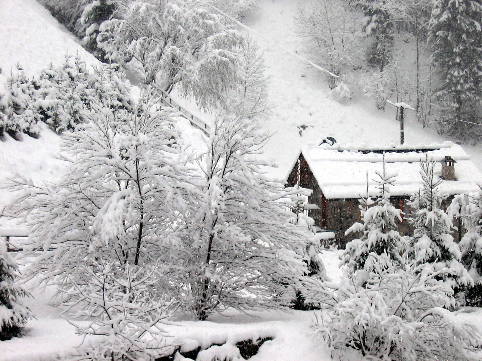 Valleve (BG), Lombardy, Italy